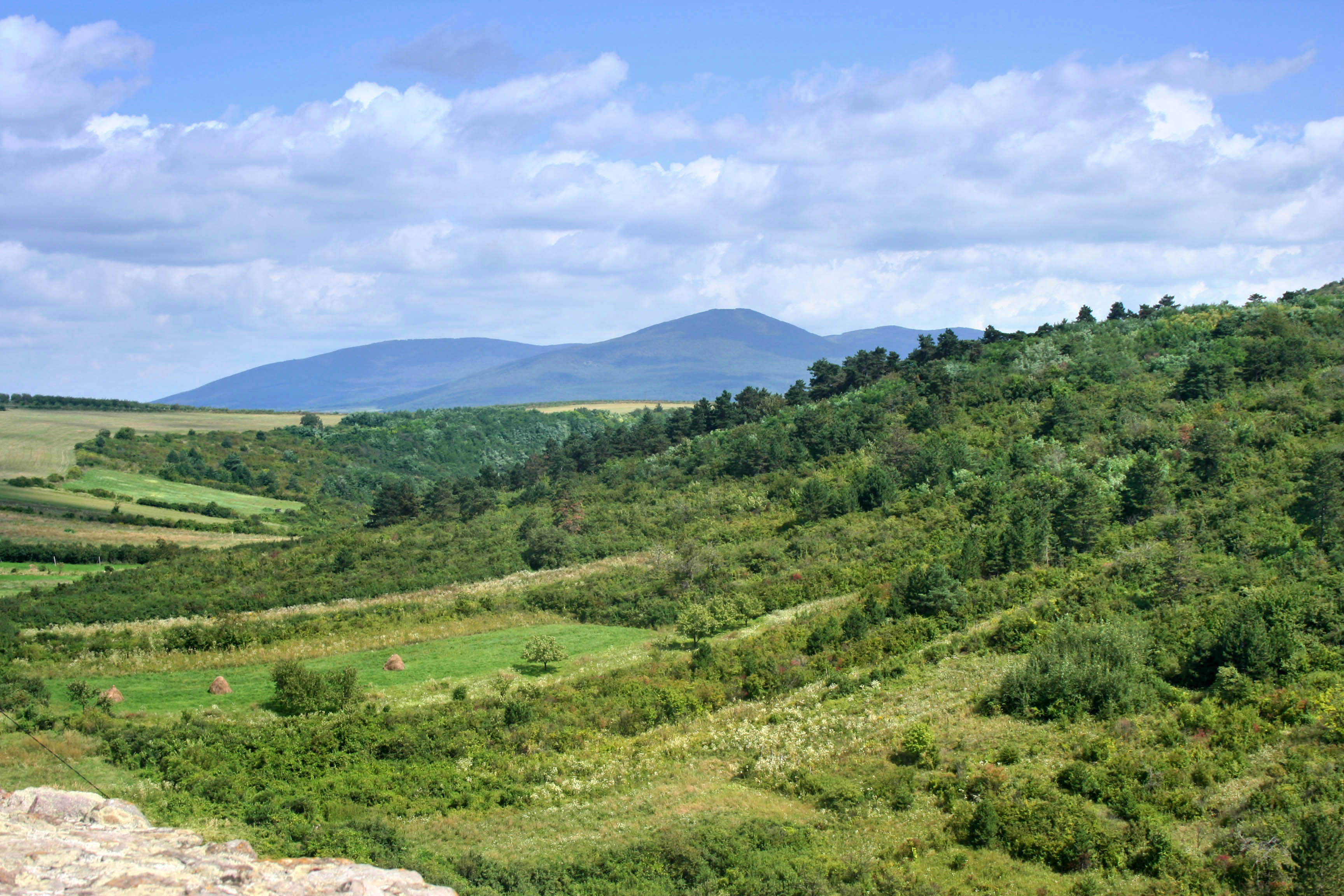 Hungary / Boldogkő Castle - view from the castle